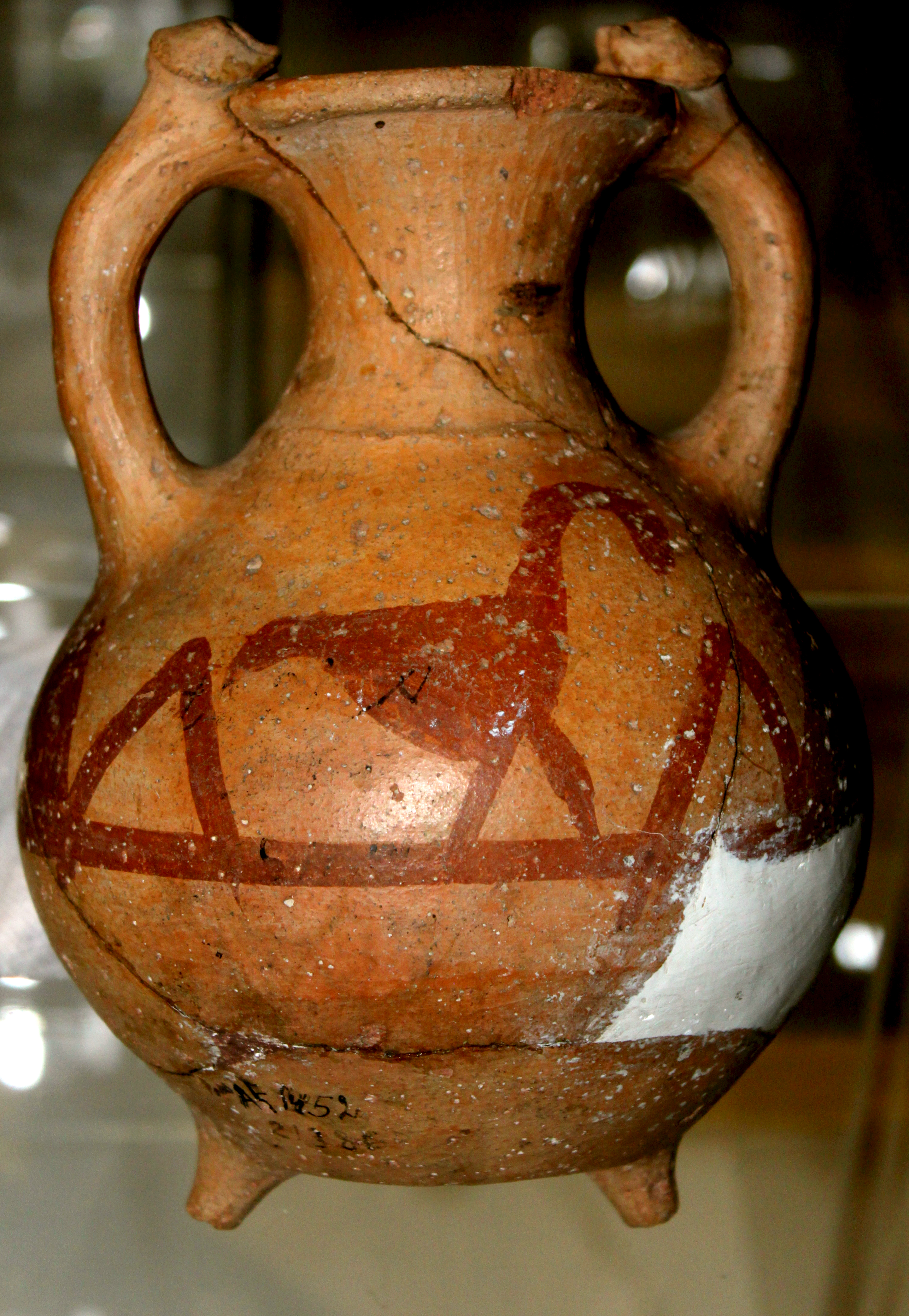 Quş təsvirli saxsı qab, Qəbələ, Qafqaz Albaniyası